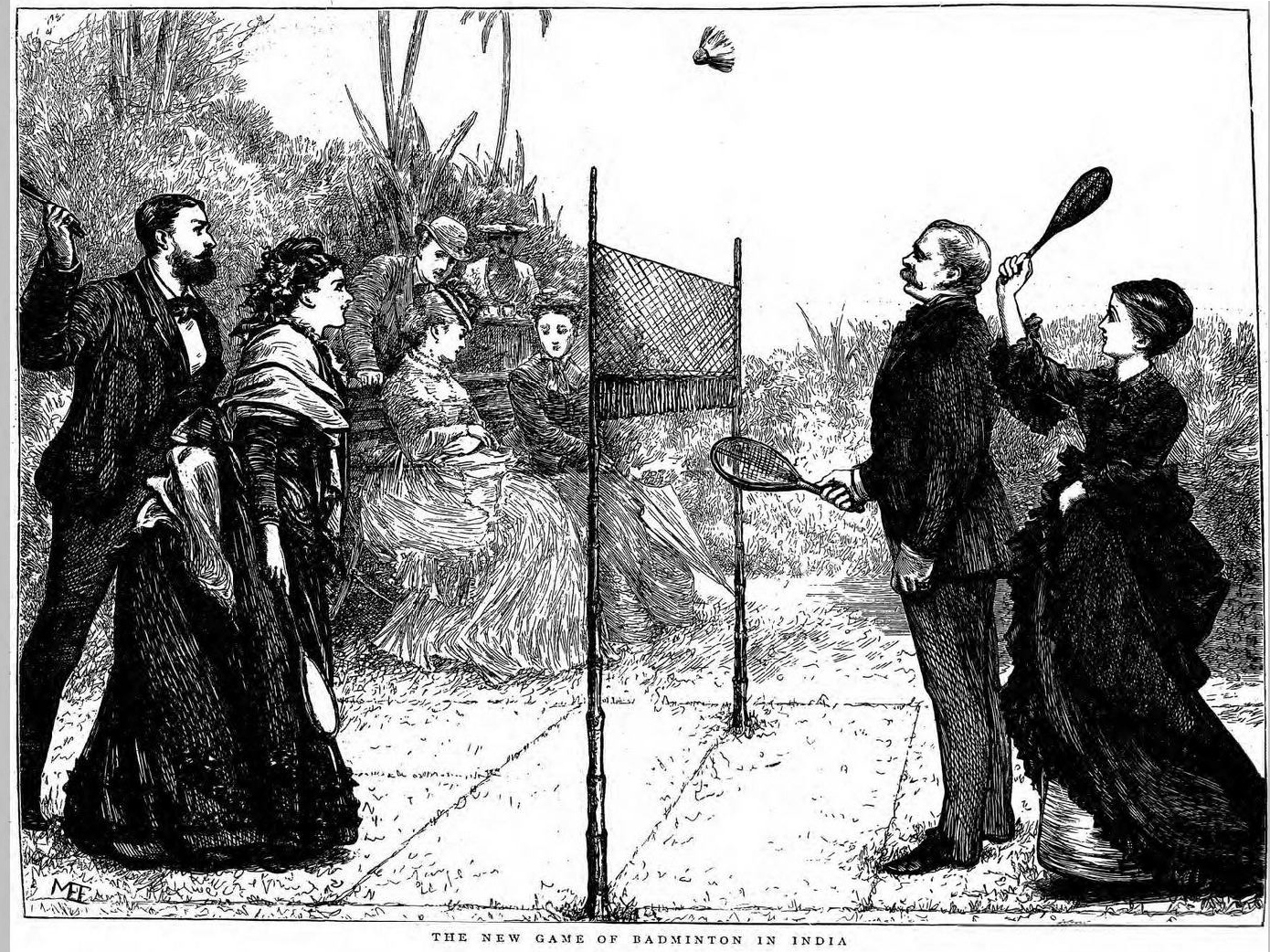 "The new game of Badminton in India"